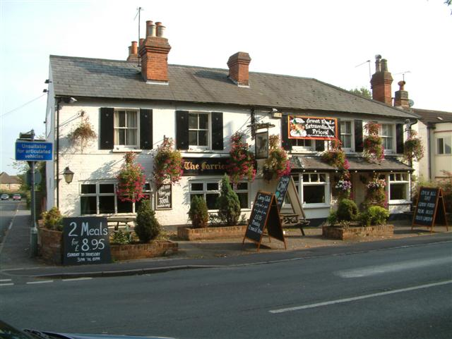 The Farrier's Arms, Spencers Wood. The Farrier's Arms, Spencers Wood